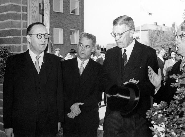 Sten von Friesen och Torsten Gustafson tillsammans med konung Gustaf VI Adolf